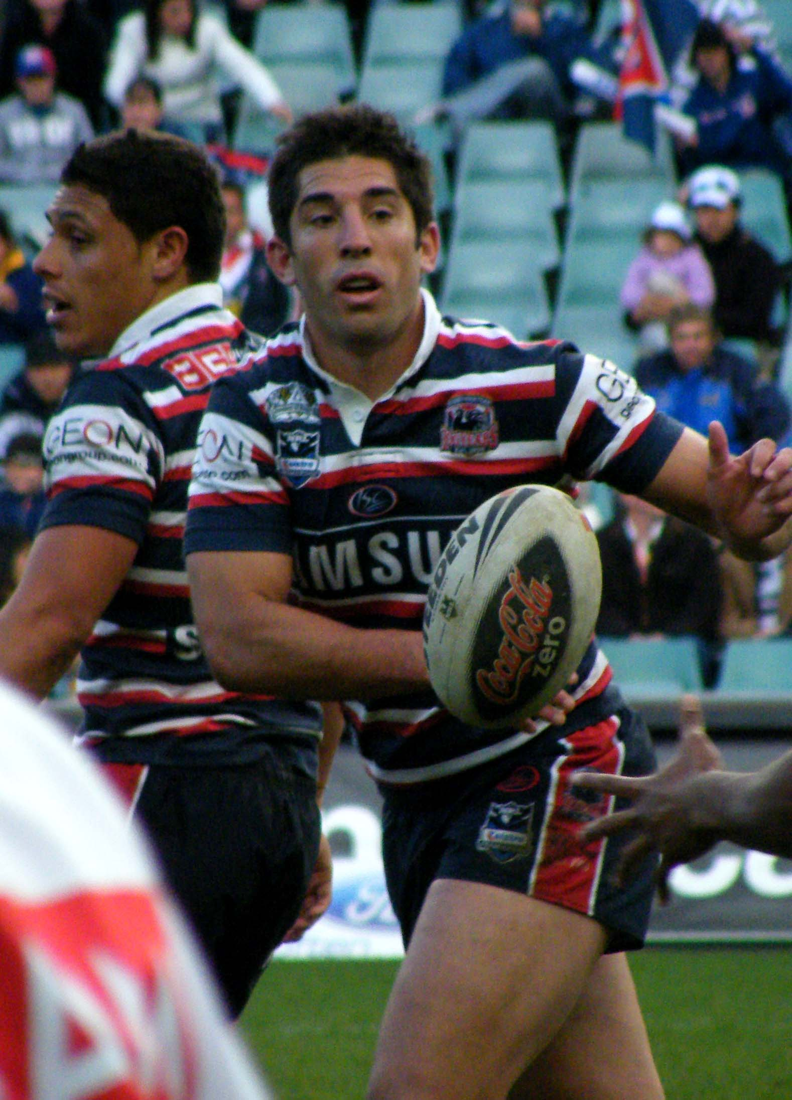 Roosters five-eighth Braith Anasta.